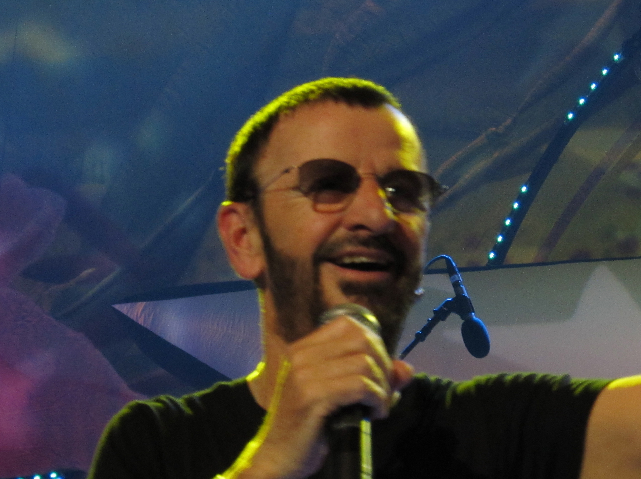 Ringo Starr singing in Paris, cropped version